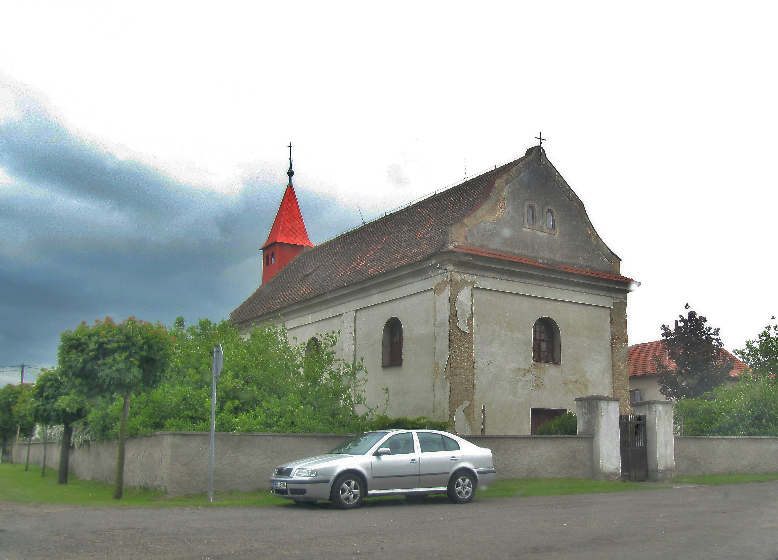 Rohozec, Kutná Hora District, Czech Republic.